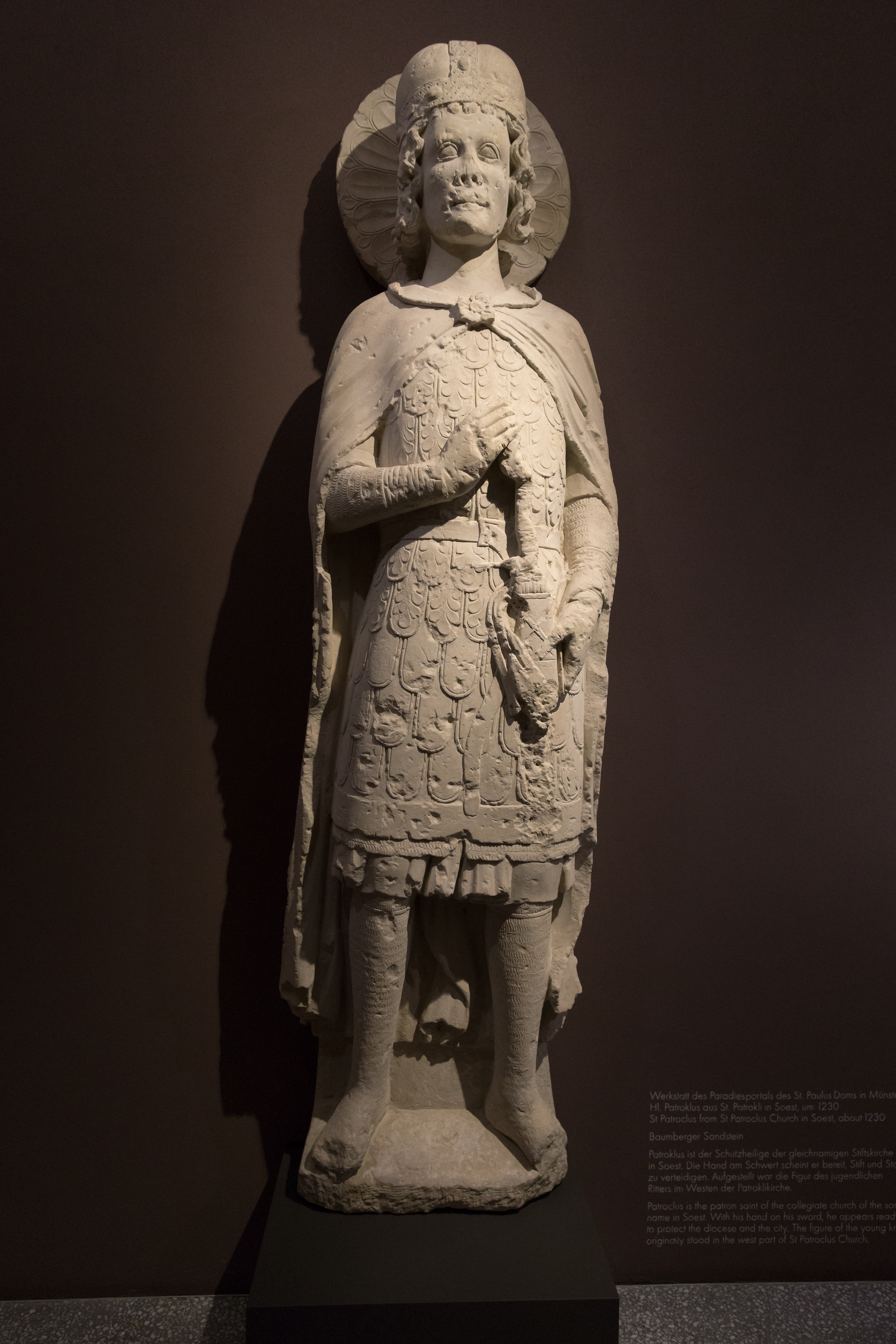 St Patroclus from St Patroclus Church in Soest. Patroclus is the patron saint of the collegiate church of the same name in Soest. The figure of the young knight originaly stood in the west part of the church.